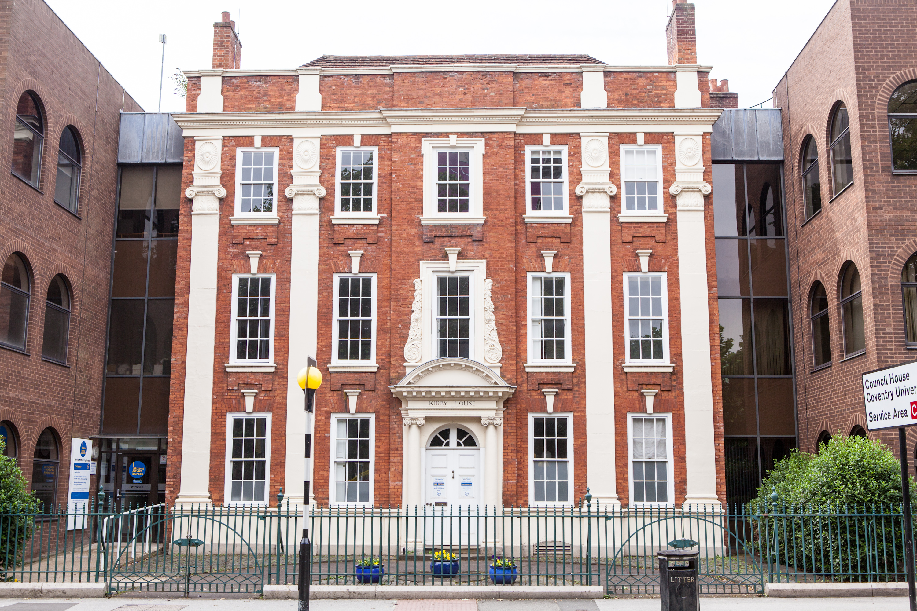 A28 - Kirby House in Coventry, UK